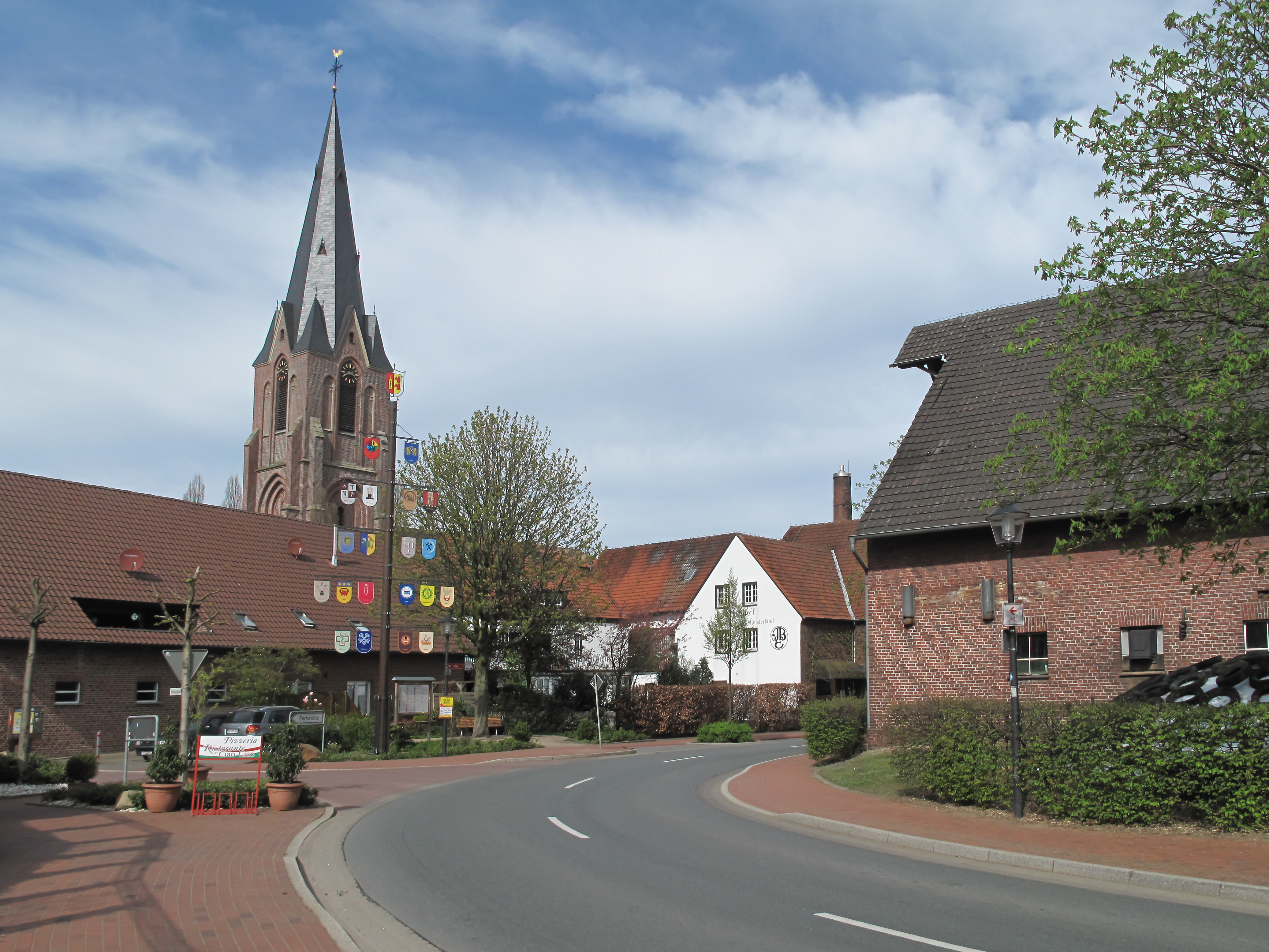 Erle, church in the street